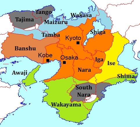 A division of Kansai-ben which proposed by Okumura Mitsuo (奥村三雄)